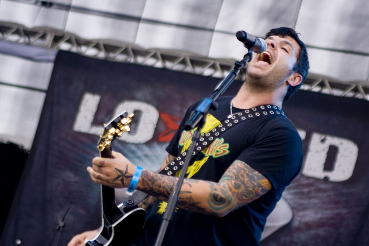 Loaded guitarist Mike Squires performing at the in Sao Paulo, Brazil in 2009.